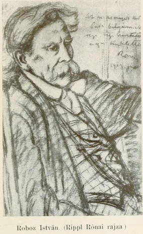 Roboz István (drawing of Rippl-Rónai József)